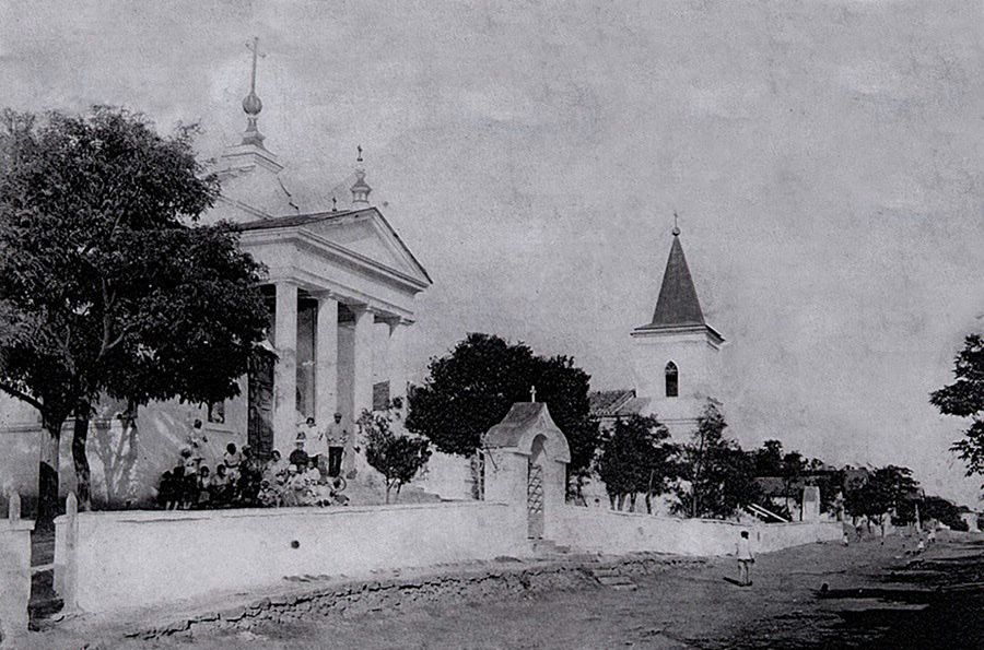 The village of Kronental, Crimea, 1907